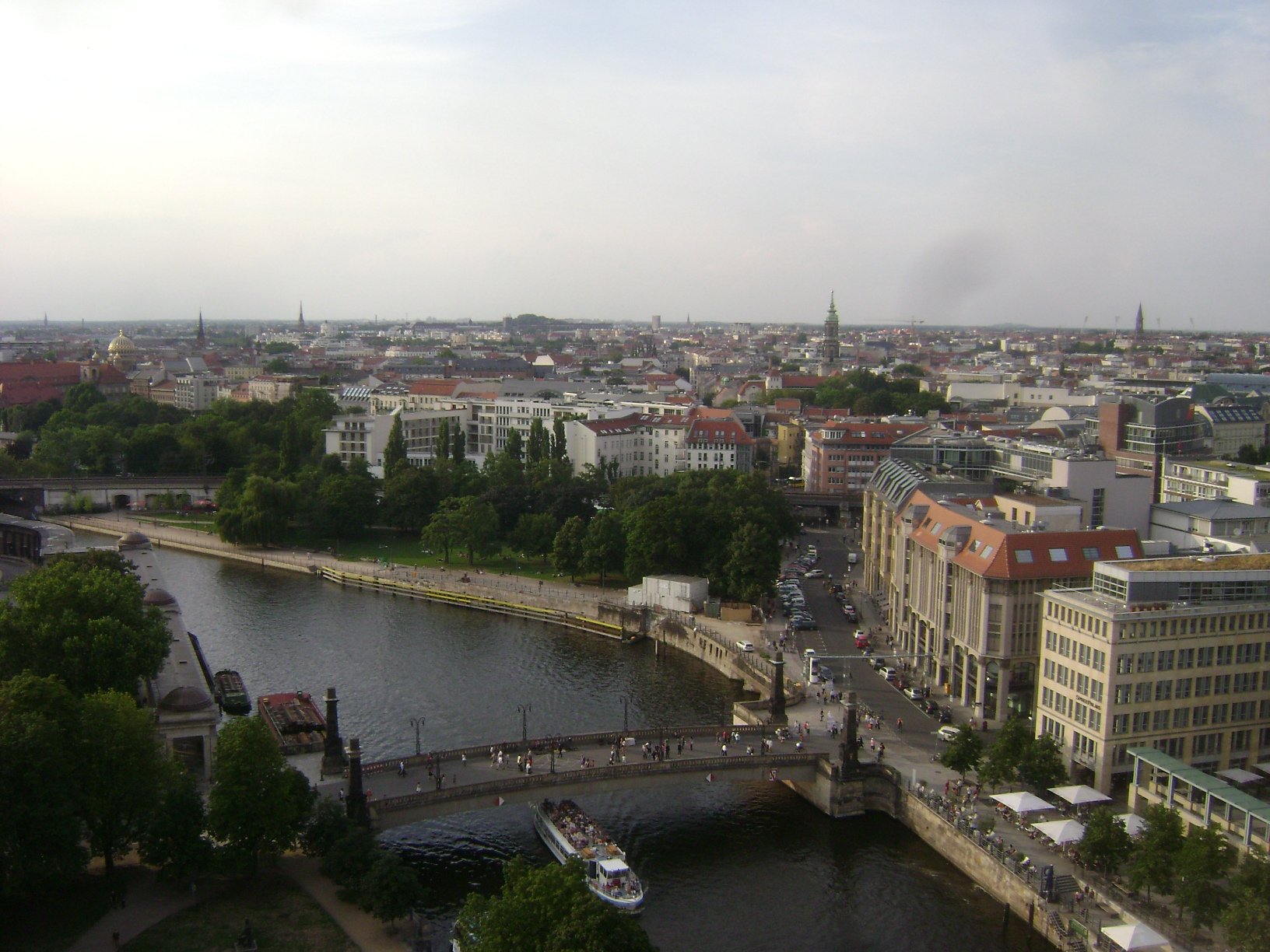 Germany. Berlin